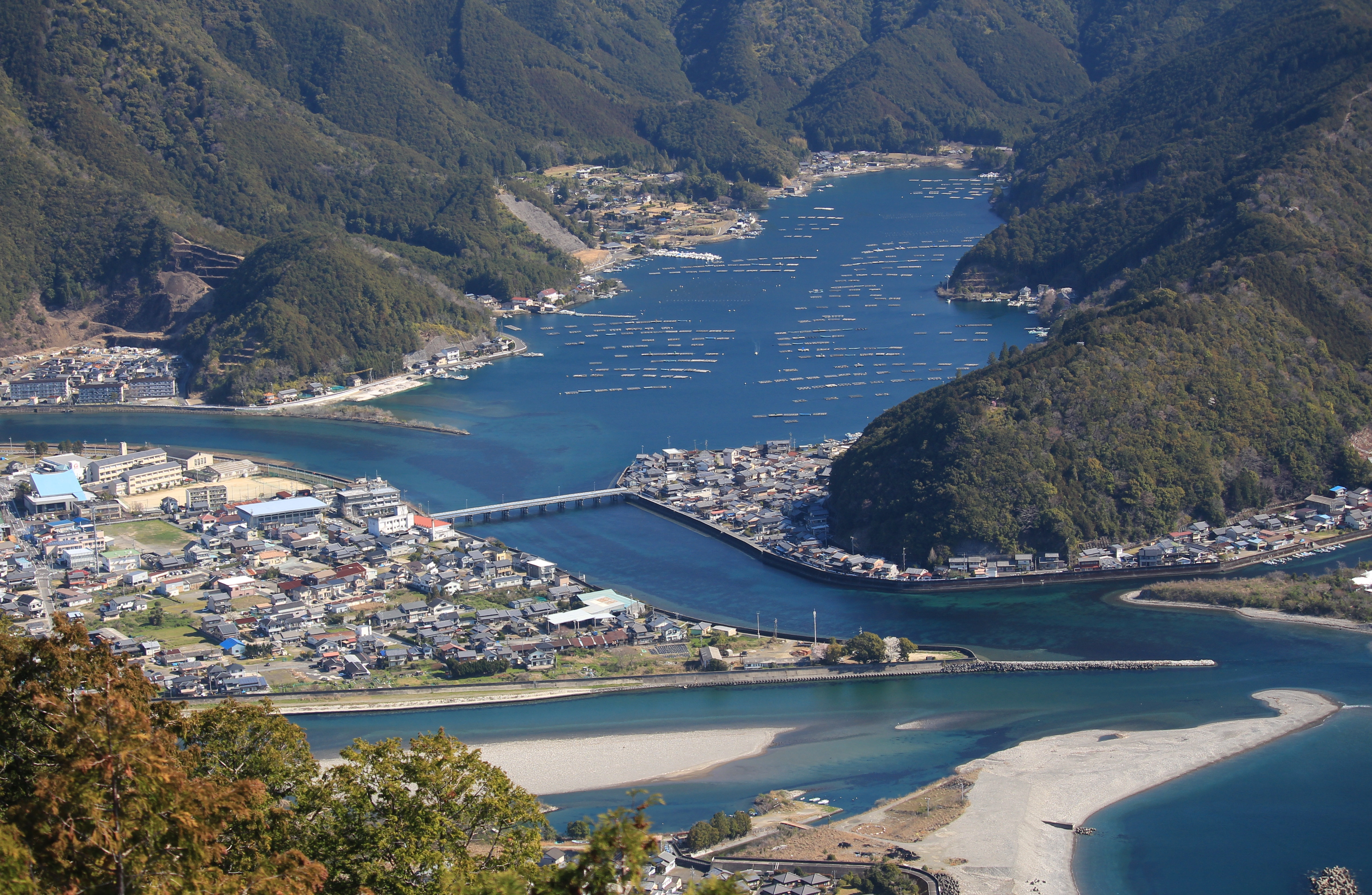 Lake Shiraishi, Funatsu River and Choshi River seen from Ochoboiwa on Mount Tengura in Kihoku, Mie Prefecture, Japan.